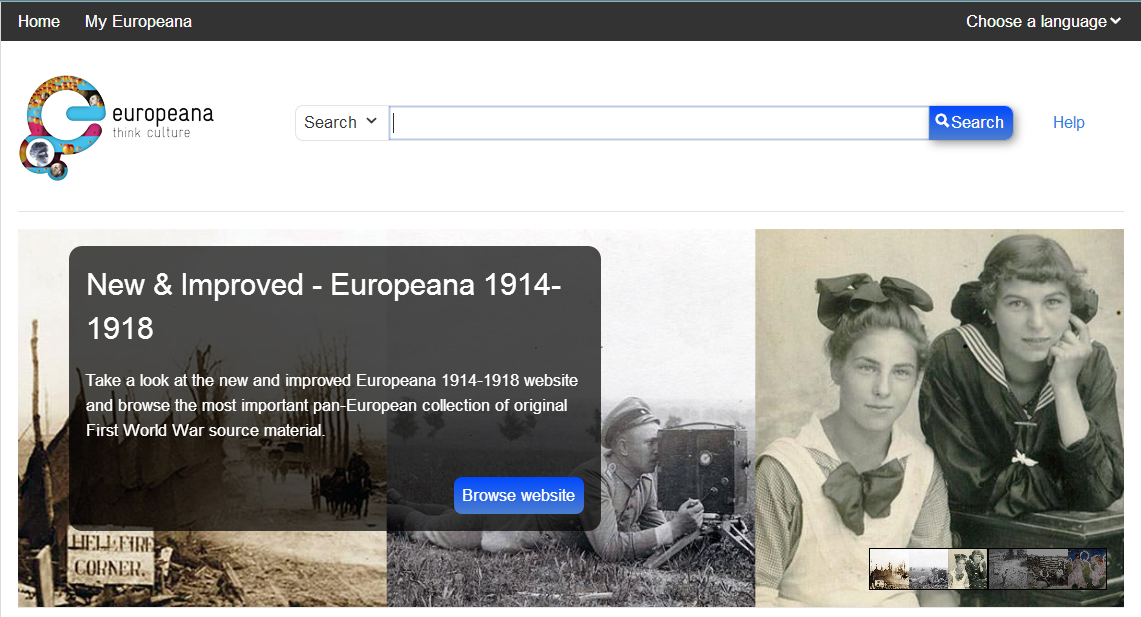 Screen appearance of europeana.eu